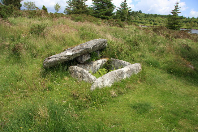 Fernworthy reservoir cist This burial chamber known as the Thornworthy Tor Cist is located very close to the north edge of the reservoir.